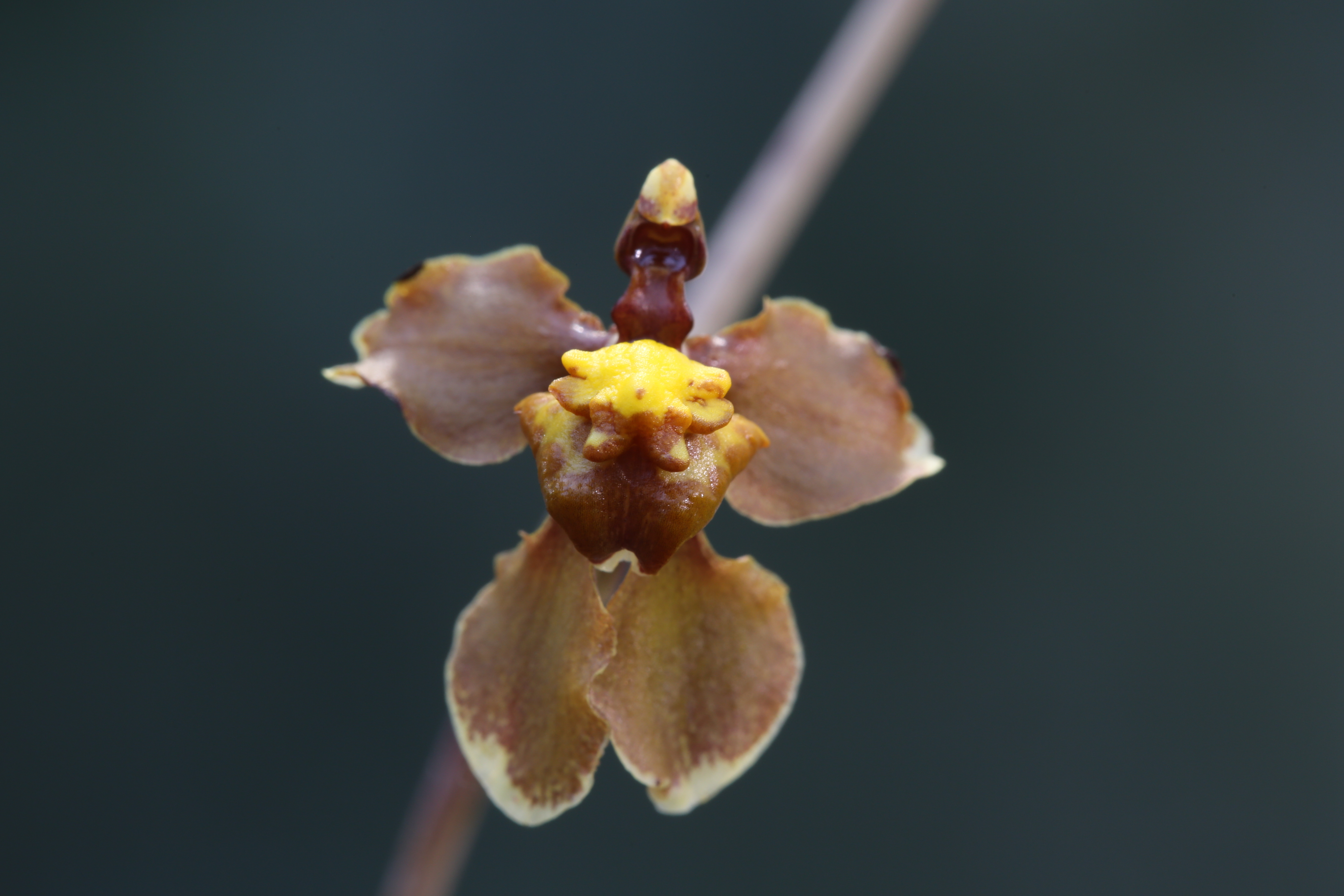 Oncidium cocciferum at Gothenburg botanical garden in 2015. Plant id: 1977-V2589 p W -- Neuendorf